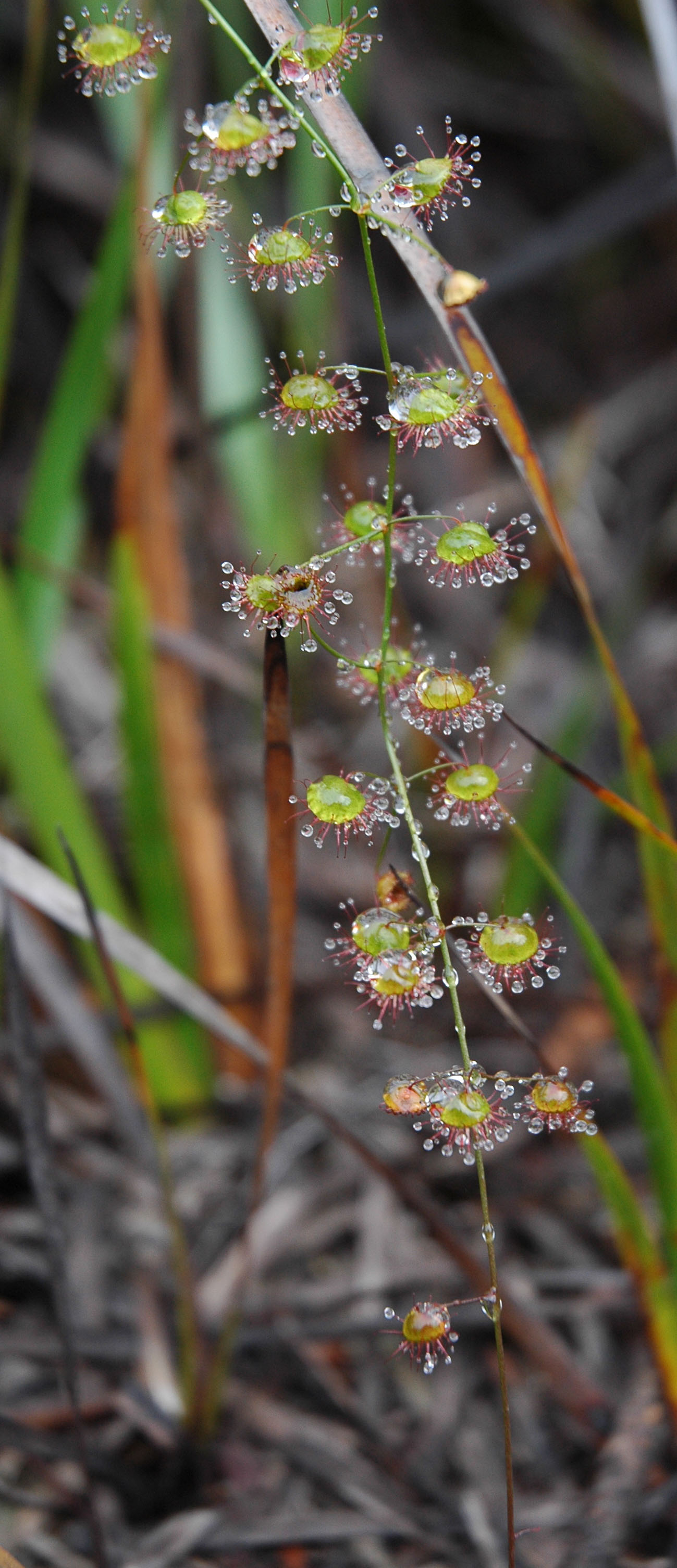 Drosera macrantha var. planchonii, wet with morning dew. Taken at Freycinet National Park, Tasmania.